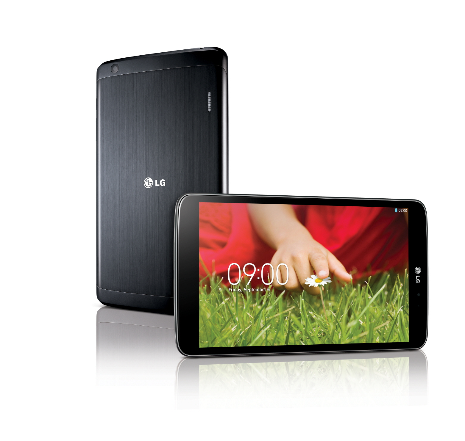 LG G Pad 8.3